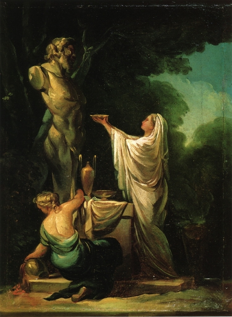 The Sacrifice to Priapus